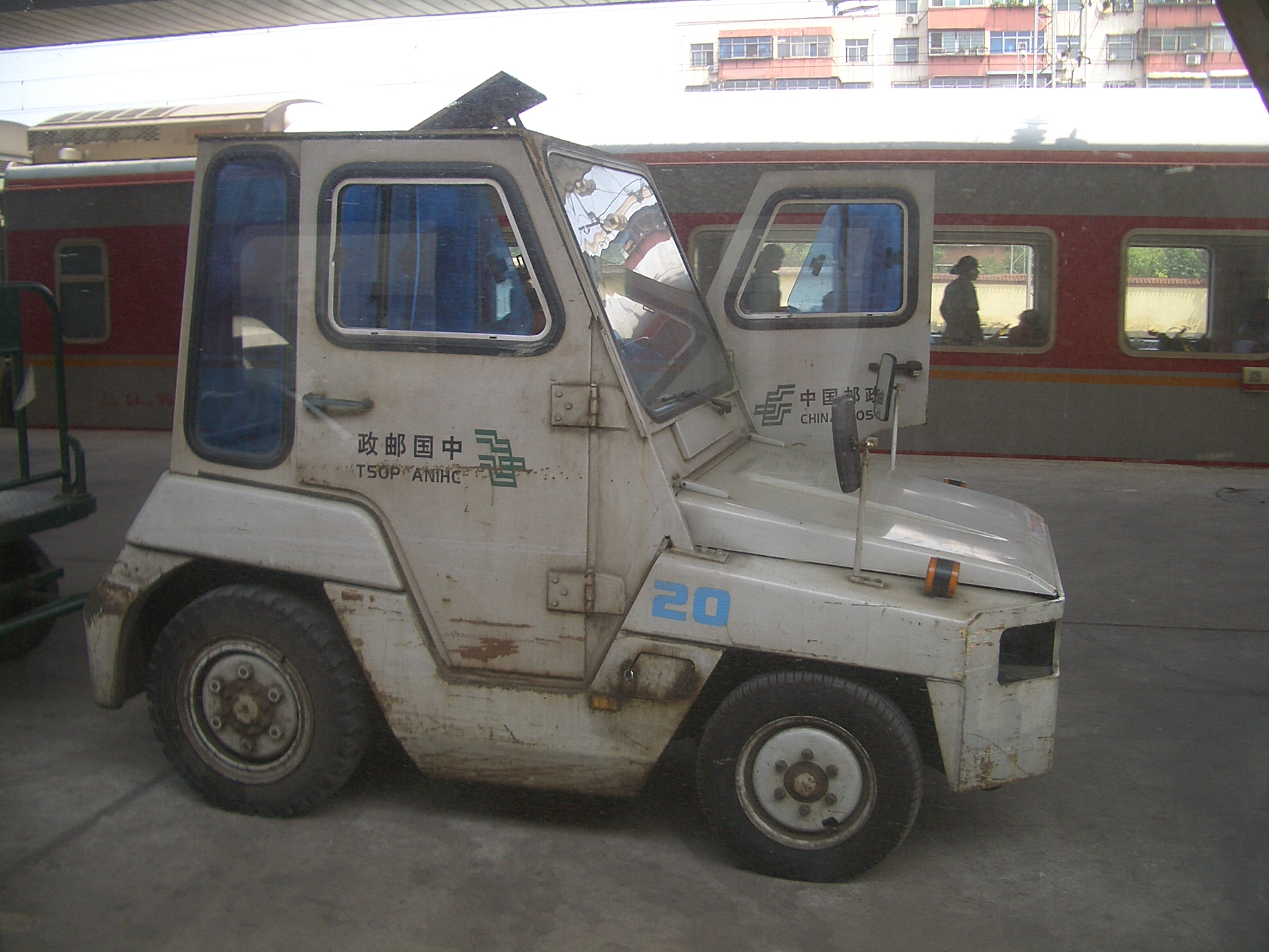 A China Post Office car at a platform of a train station. (The station, most likely is Zhengzhou, based on the timing of the photo and the schedule of my train). Note that the text on both sides of the car (中国邮政 / China Post) runs from the front of the vehicle to the rear of the vehicle, which means that on the right side of the car it will be directed from the right to the left. This convention is also quite common with tour buses in China.